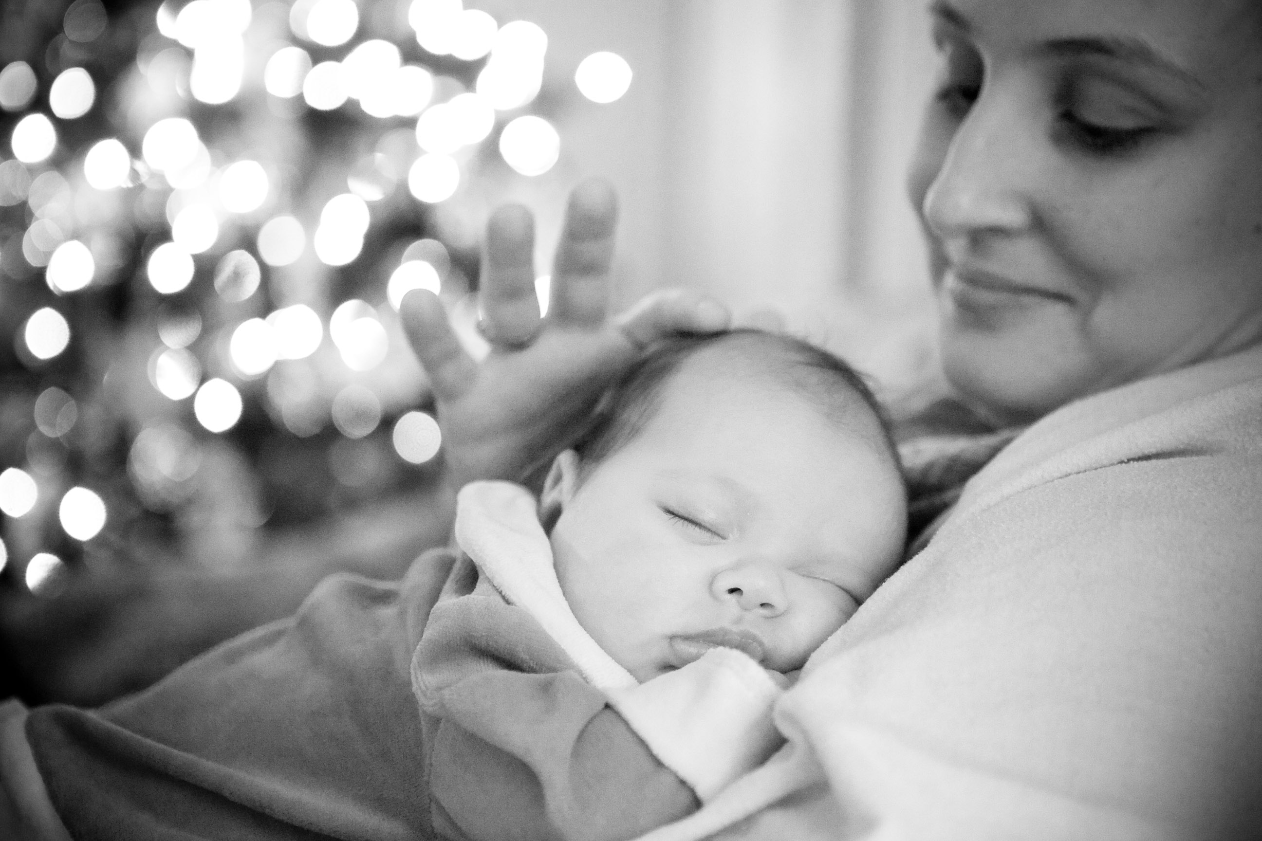 Hope everyone is able to slow down and enjoy this holiday season a bit like this little one. HBW!